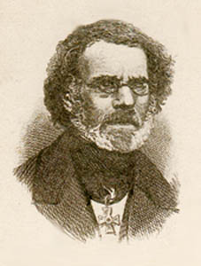 Marie-Félicité Brosset (January 24, 1802 – September 22, 1880) was a French orientalist who specialized in the Georgian and Armenian studies.